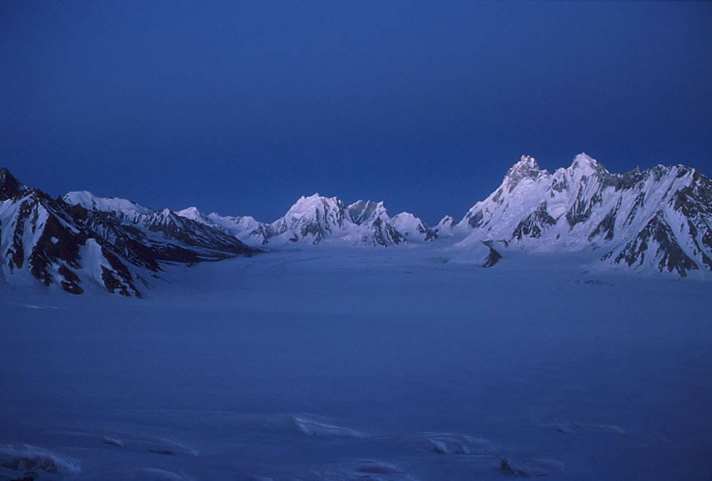 credit: Snow Lake under twilight. Snow Lake is the glacial basin at the head of Biafo and Hispar Glaciers, Northern Areas, Pakistan.